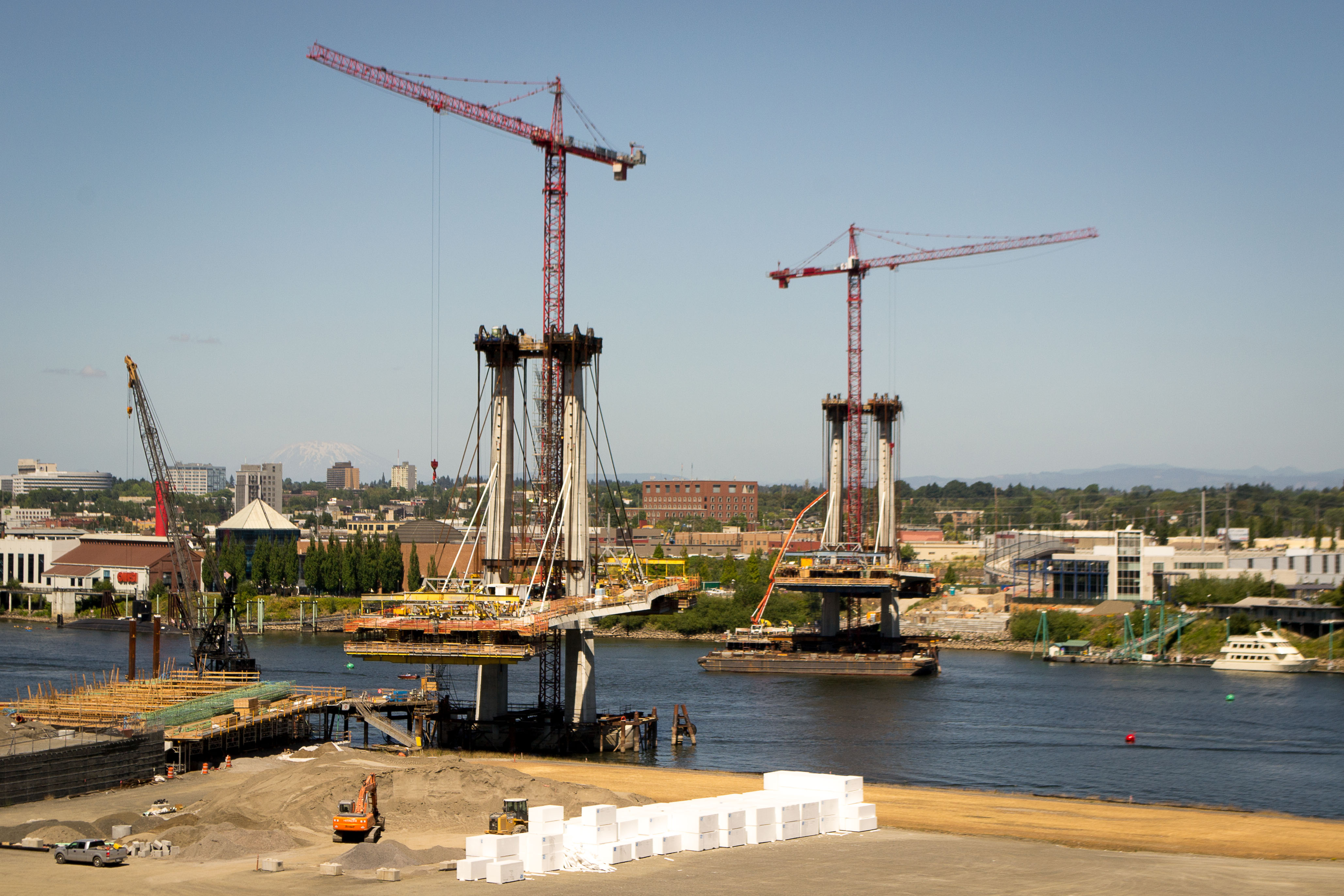 Portland–Milwaukie Light Rail Bridge Construction seen from the Ross Island Bridge. The bridge has been officially named Tilikum Crossing, "Bridge of the people."